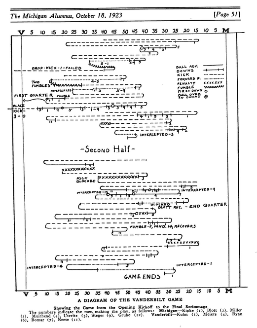 Diagram of the game between the Michigan Wolverines and Vanderbilt Commodores at Ferry Field in 1923. This work is in the public domain in the United States because it was published in the United States between 1923 and 1977 without a copyright notice. See this page for further explanation. Note that it may still be copyrighted in jurisdictions that do not apply the rule of the shorter term for US works (depending on the date of the author's death), such as Canada (50 p.m.a.), Mainland China (50 p.m.a., not Hong Kong or Macao), Germany (70 p.m.a.), Mexico (100 p.m.a.), Switzerland (70 p.m.a.), and other countries with individual treaties.